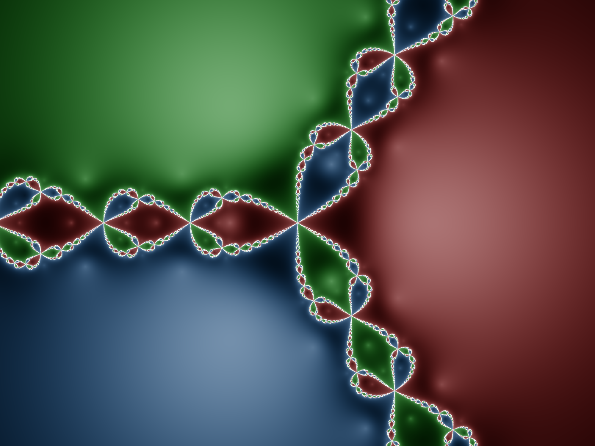 Julia set (white) and Fatou set (dark red/green/blue) for f : z ↦ z − g g ′ ( z ) {\displaystyle f:z\mapsto z-{\frac {g}{g' (z)} with g : z ↦ z 3 − 1 {\displaystyle g:z\mapsto z^{3}-1} in the complex plane. Real ranges from − 2.2 {\displaystyle -2.2} to 2.2 {\displaystyle 2.2} and Imag according to aspect ratio.